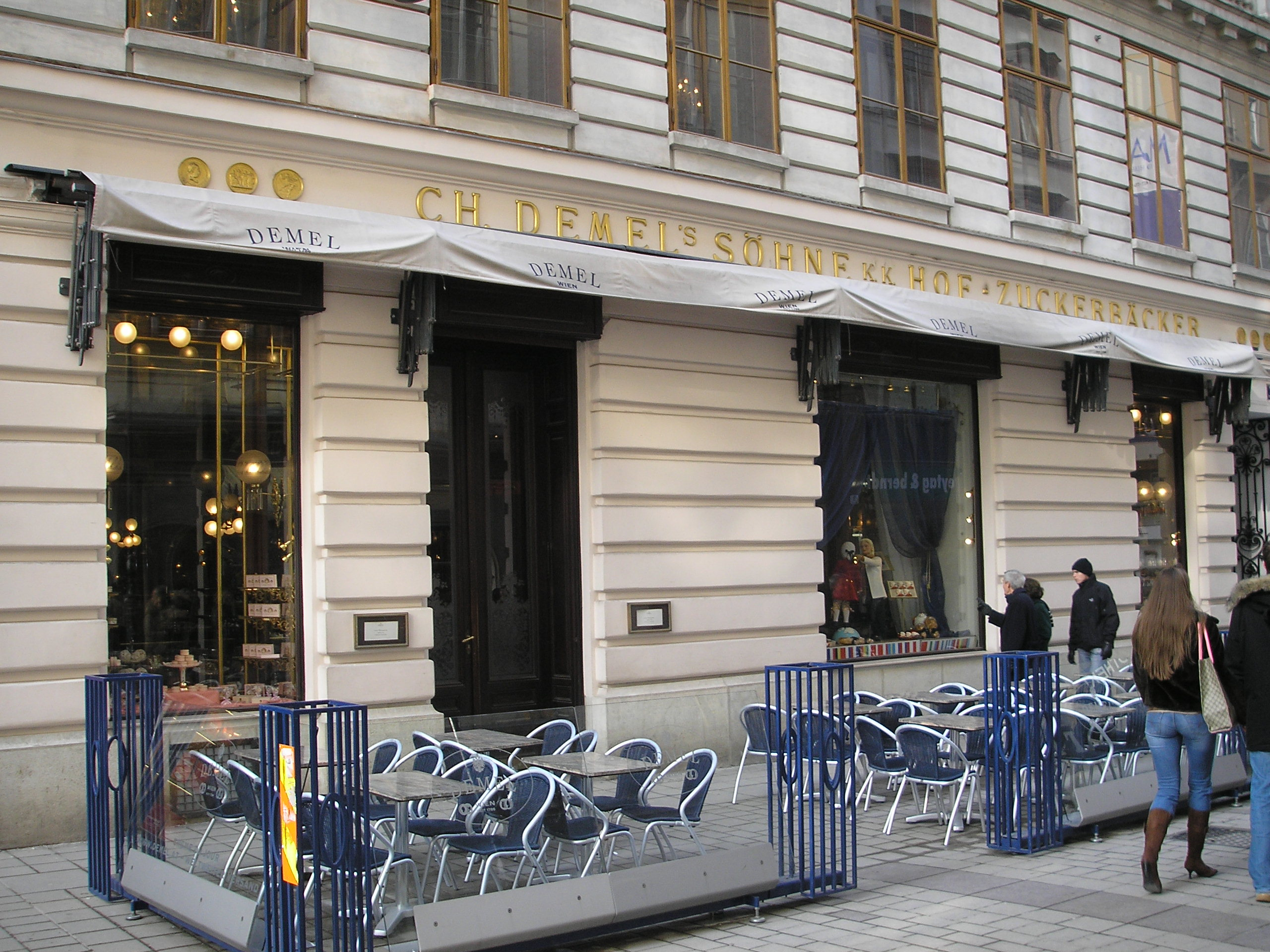 Description: Interior view of the Café Demel in Vienna. Source: self-made, I release it into the public domain. Gryffindor 22:26, 23 March 2006 (UTC)